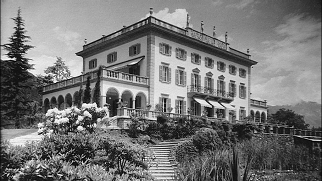 photography of Villa Emden on Brissago Island, Ticino, Switzerland, ca. 1935